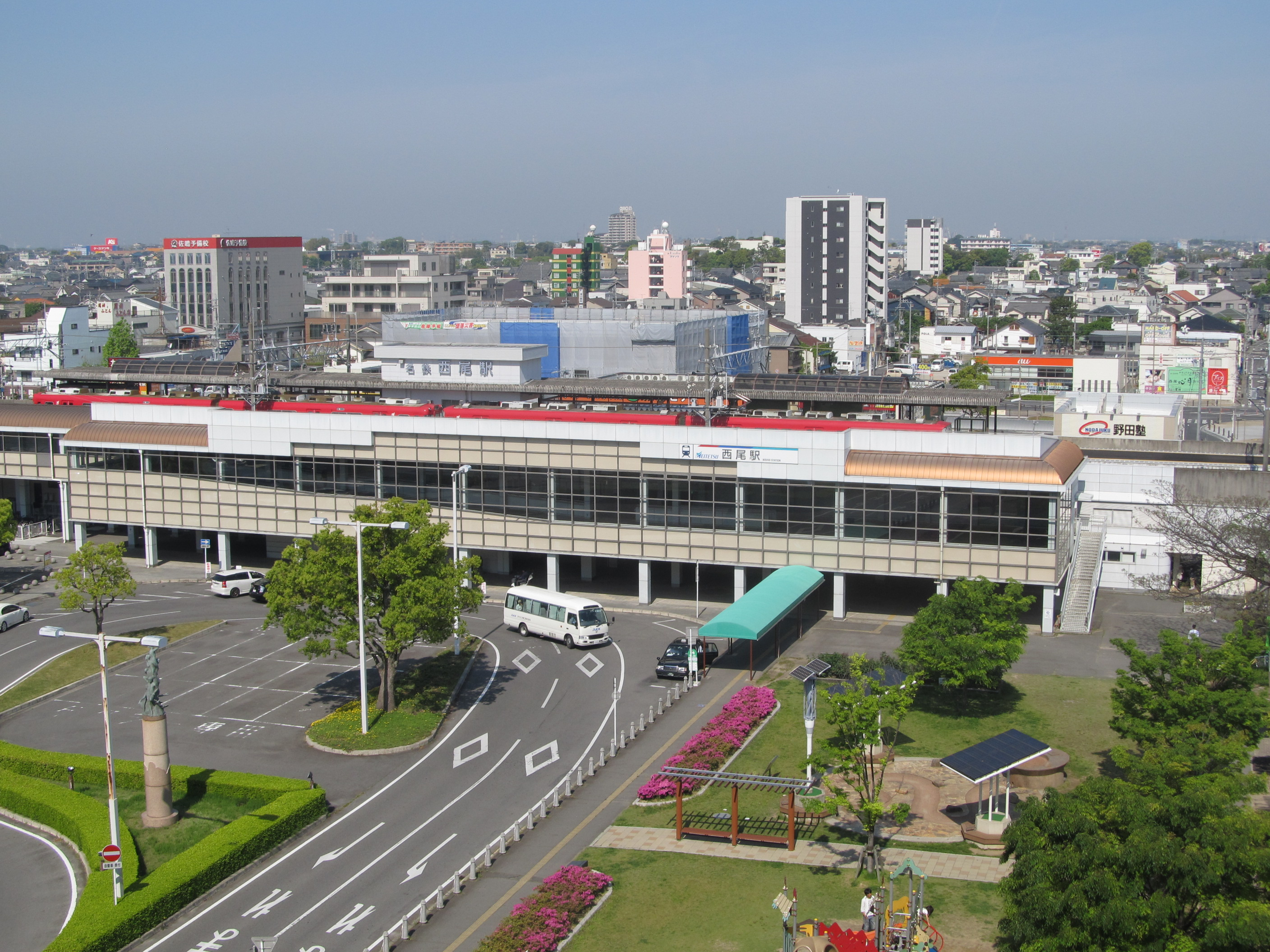 Nagoya Railroad Nishio Line Nishio Station East Gate